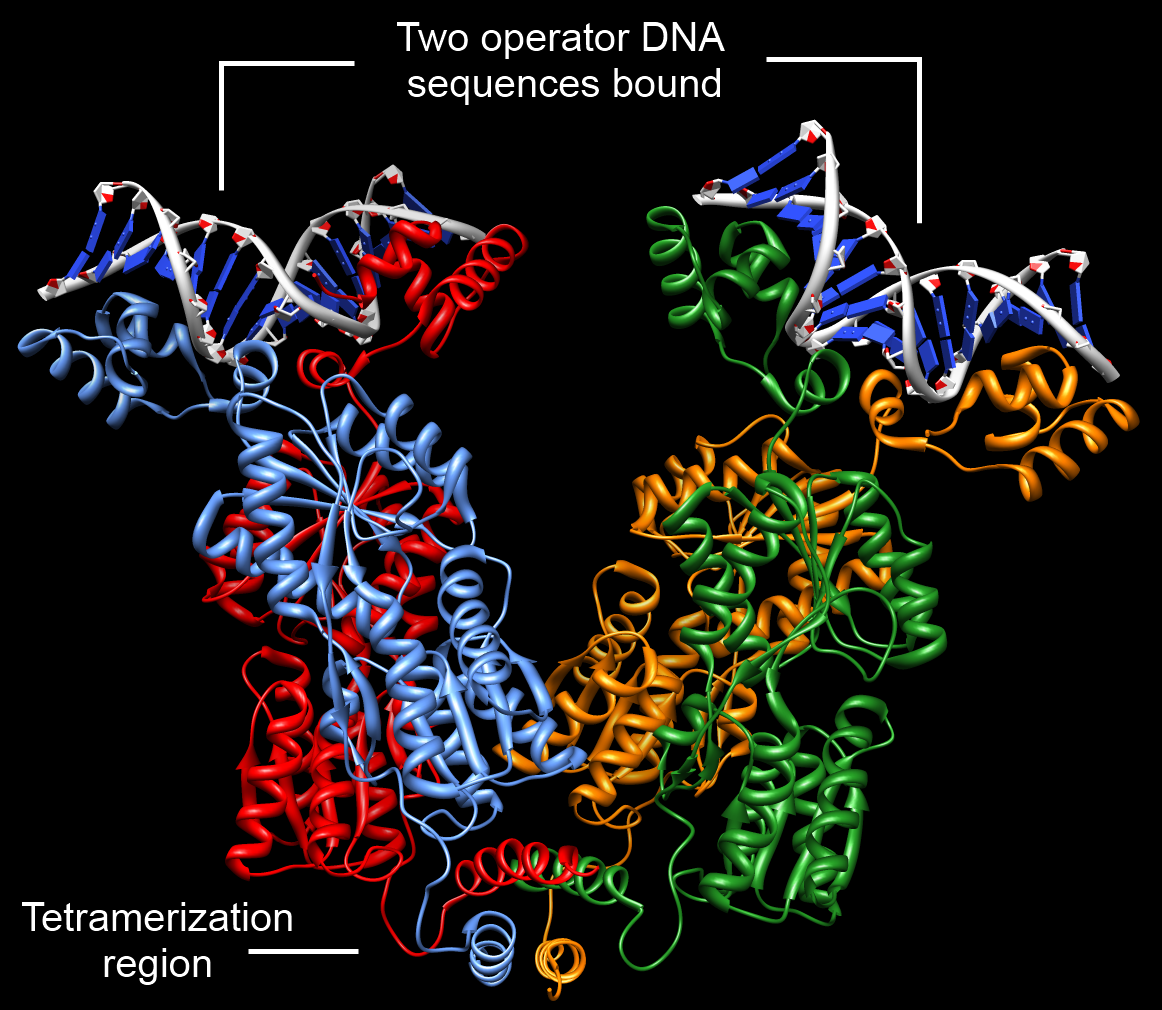 This is an annotated image showing the PDB1Z04 theoretical model of Lac repressor (LacI) bound to two DNA operator sequences. Molecular graphics images were produced using the UCSF Chimera package from the Resource for Biocomputing, Visualization, and Informatics at the University of California, San Francisco (supported by NIH P41 RR001081).